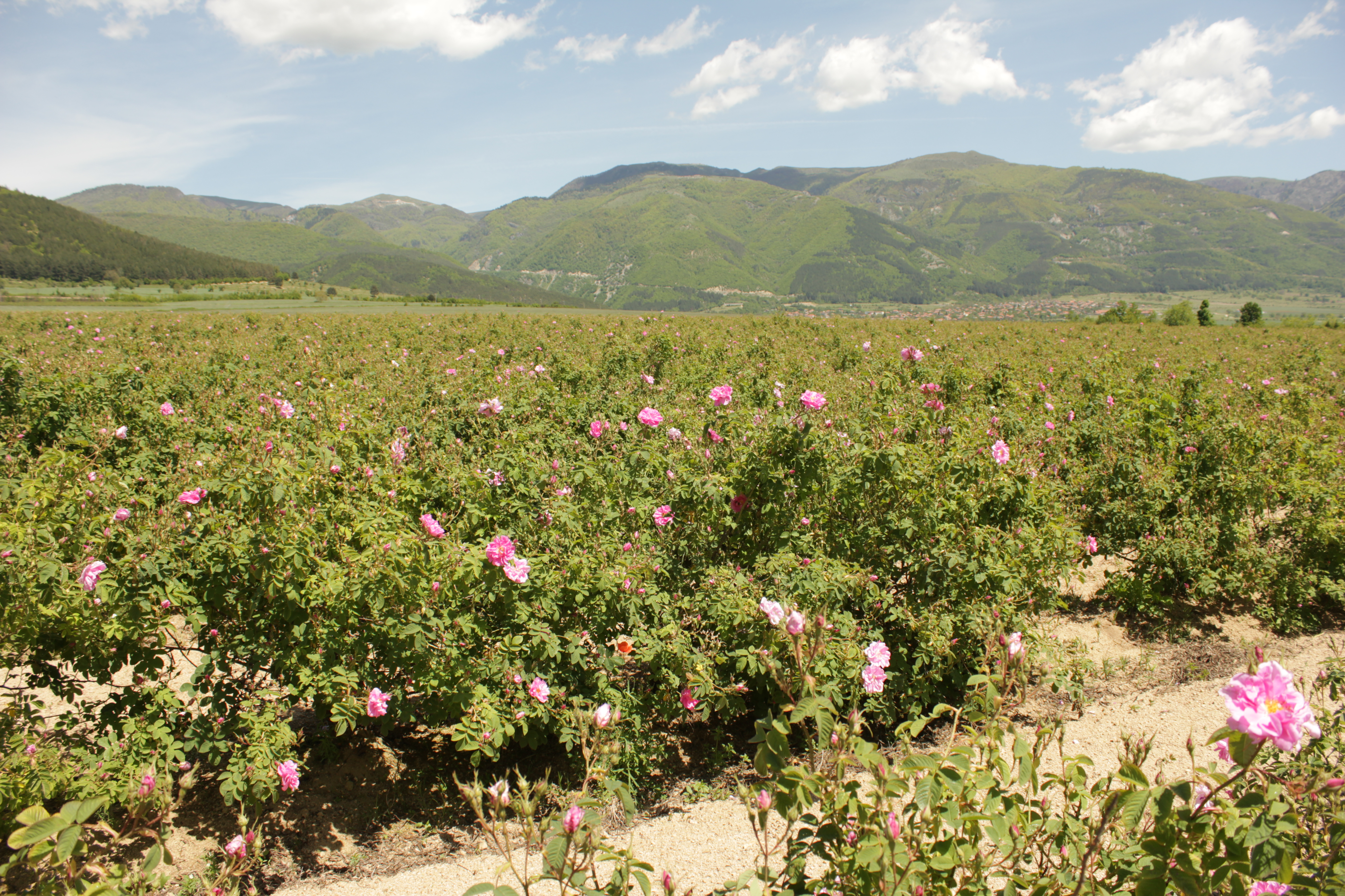 Rose Valey Bulgaria near Rosino Village